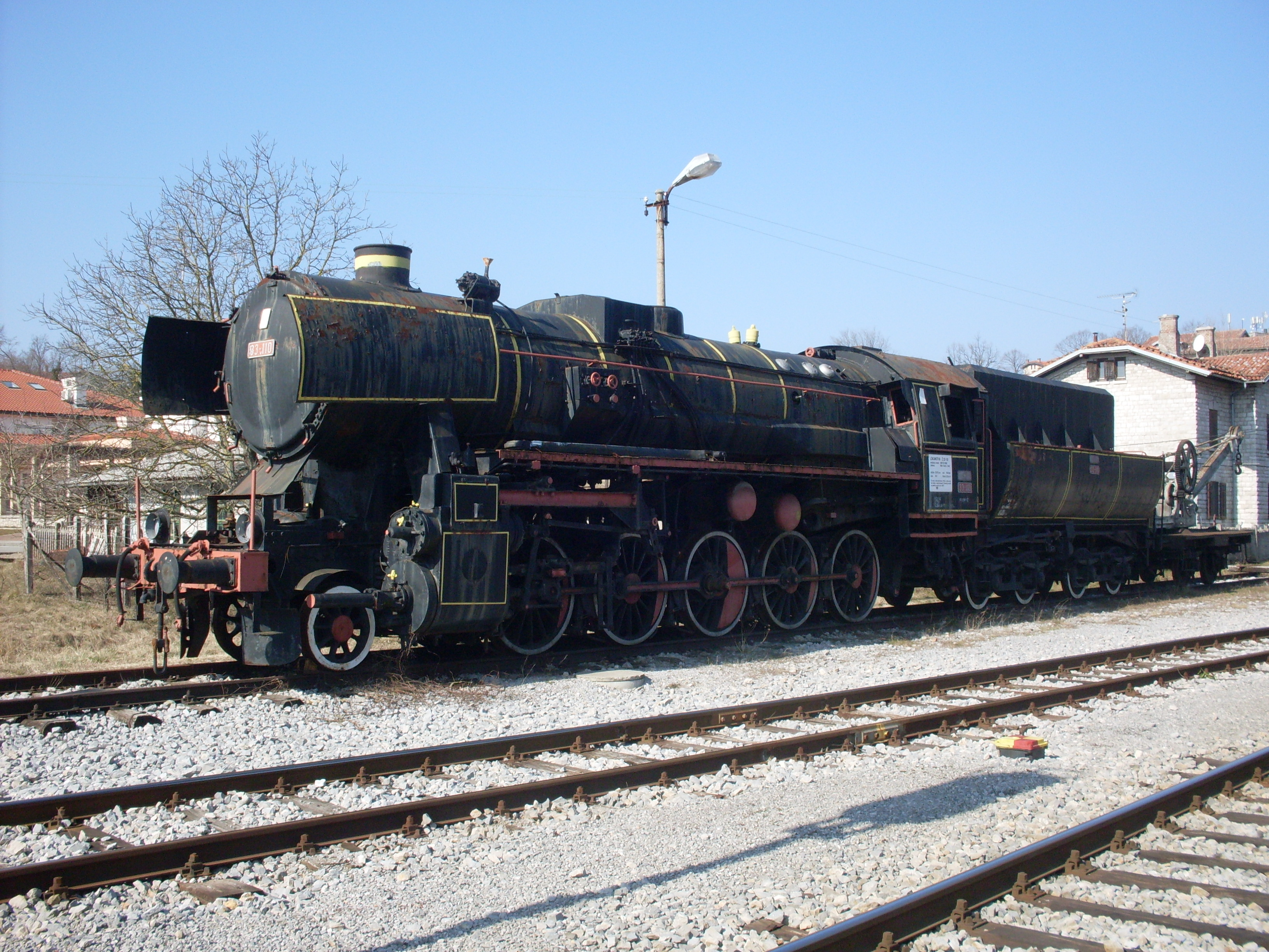 Normal gauge steam locomotive SŽ 31-110 (formerly DRB 52 4936) at the train station of Štanjel, Slovenia, actually located between Štanjel and Kobdilj. Length: 22975 mm, power: 1200 kW, weight: 95 t, max. speed: 80 km/h. The locomotive was produced in 1943 by MBA in Berlin, serial nr. 14006. This class of locomotives was designed in 1942 to pull all kind of trains in war conditions, therefore the design was simplistic and short lifetime was expected. Nevertheless it was in use use on Slovenian main tracks all until 1978 when the steam traction was abandoned in slovenia. Its "sister" SŽ 33-037 still pulls museum trains. Pospichal Lokstatistik. About the class 33 (in Slovenian only). More photos.